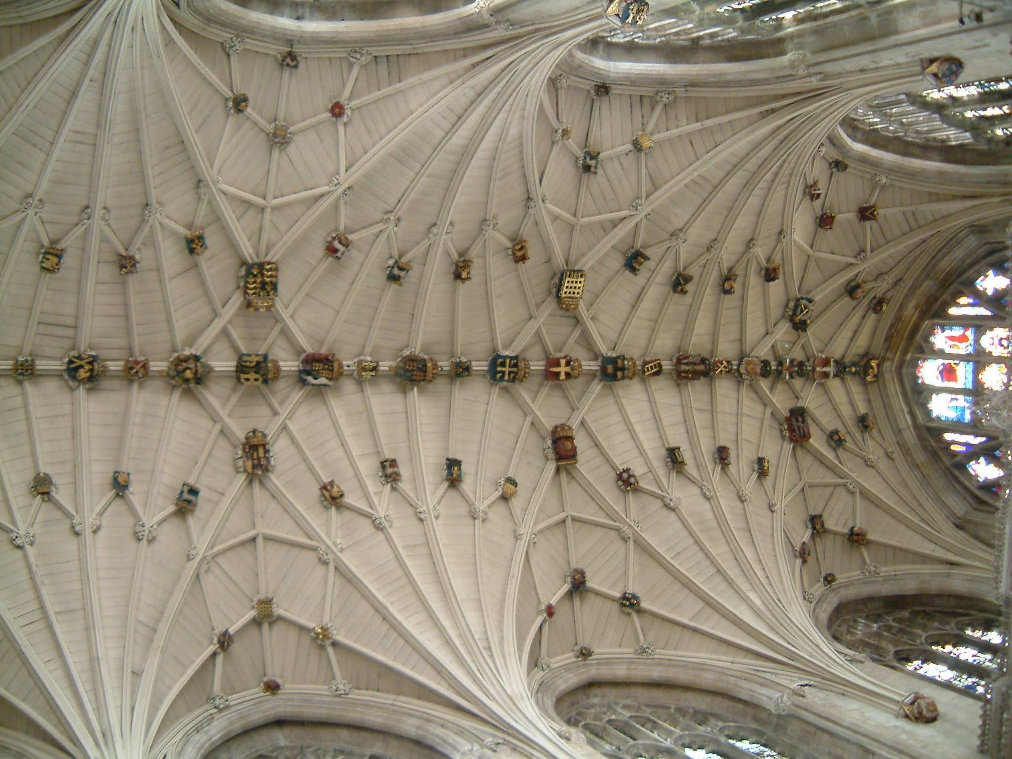 Winchester Cathedral, Winchester, England, United-Kingdom